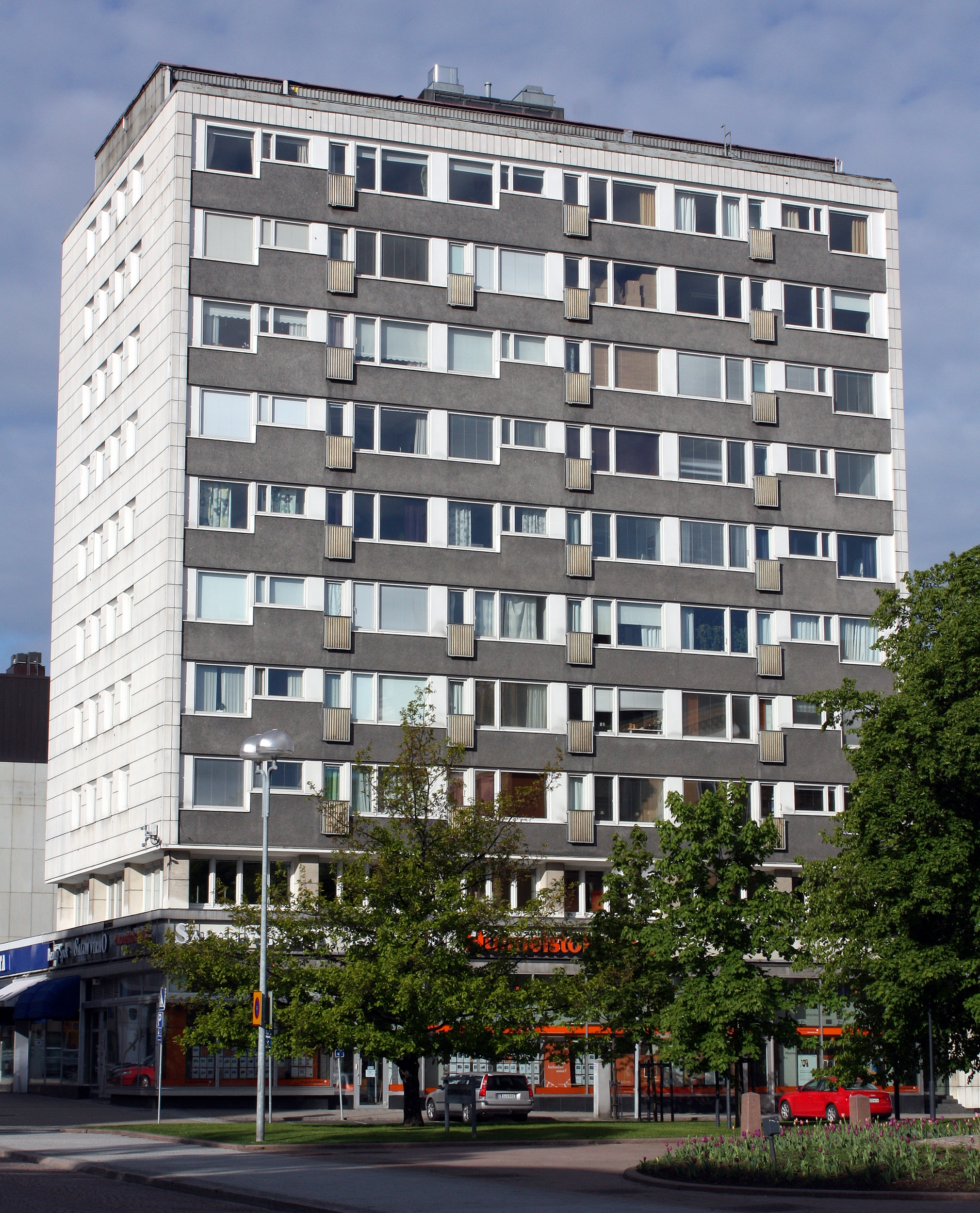 Yhdystorni mixed-use building in Oulu, Finland. The house was designed by architect Veikko Malmio and it was completed in 1958.